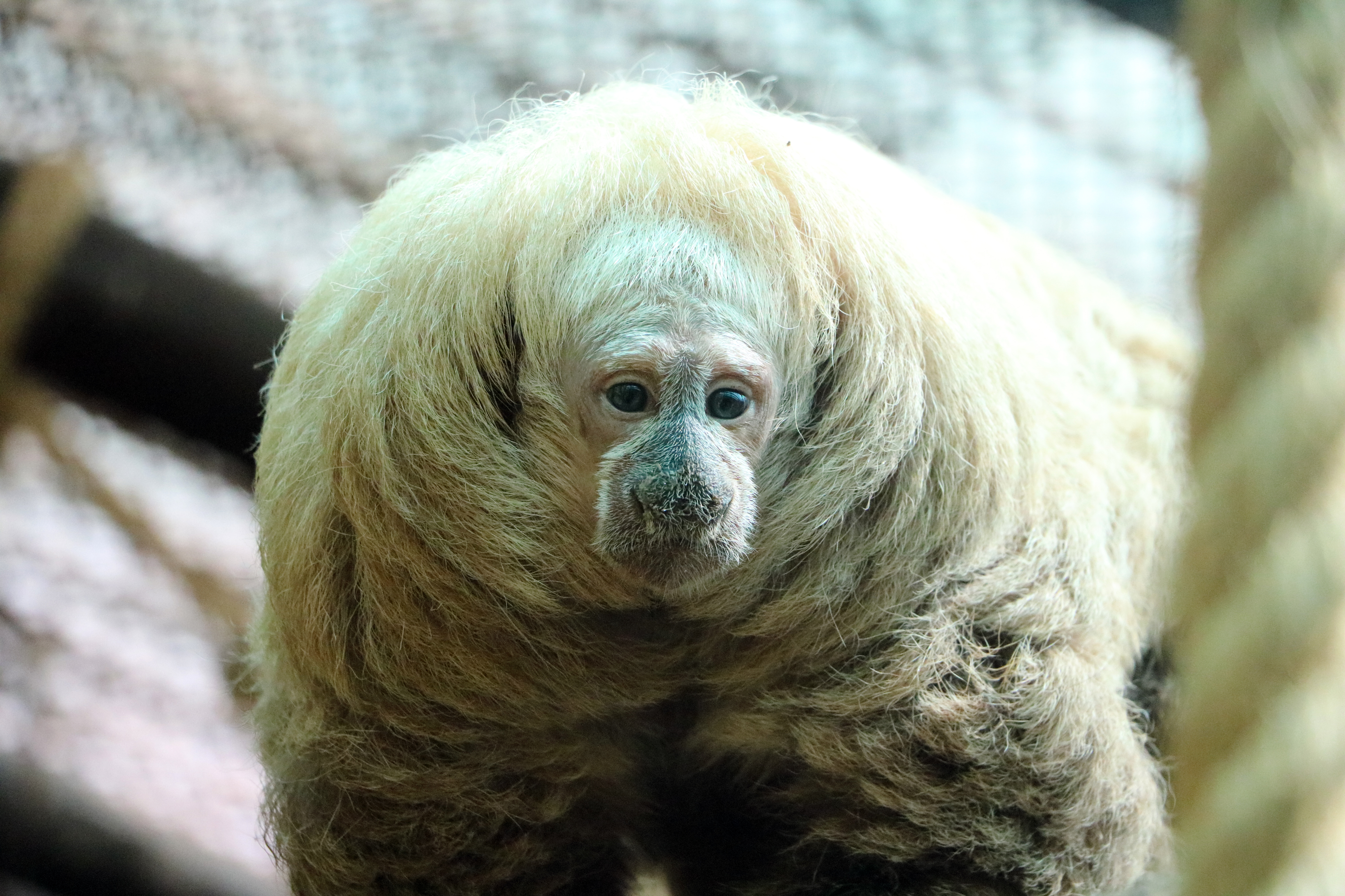 A captive buffy saki